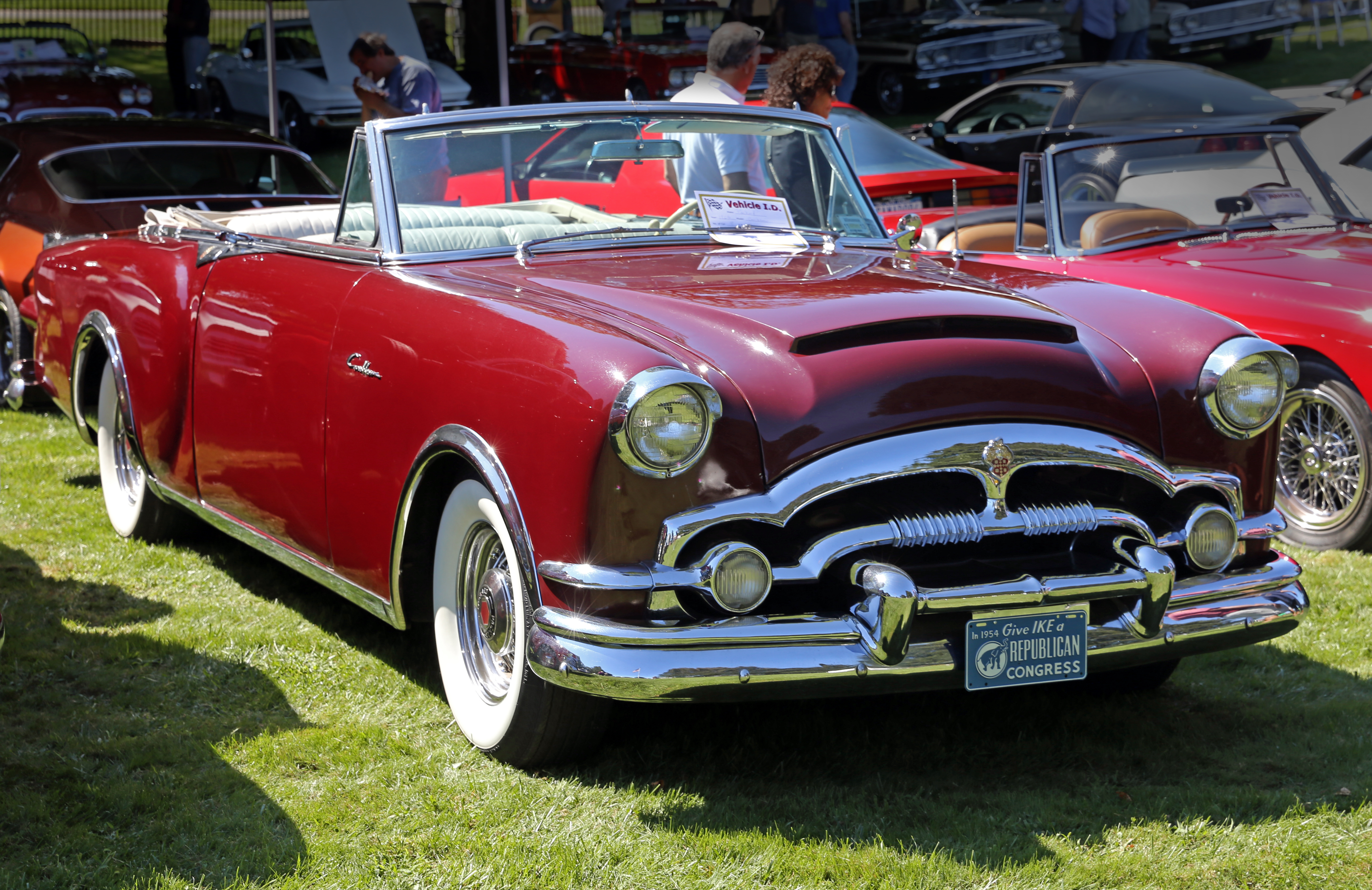 1953 Packard Caribbean convertible (type 2678) at a classic car show in Water Mill, NY. Only 750 of these were built, all with a 180 hp, 327 ci V8 engine.